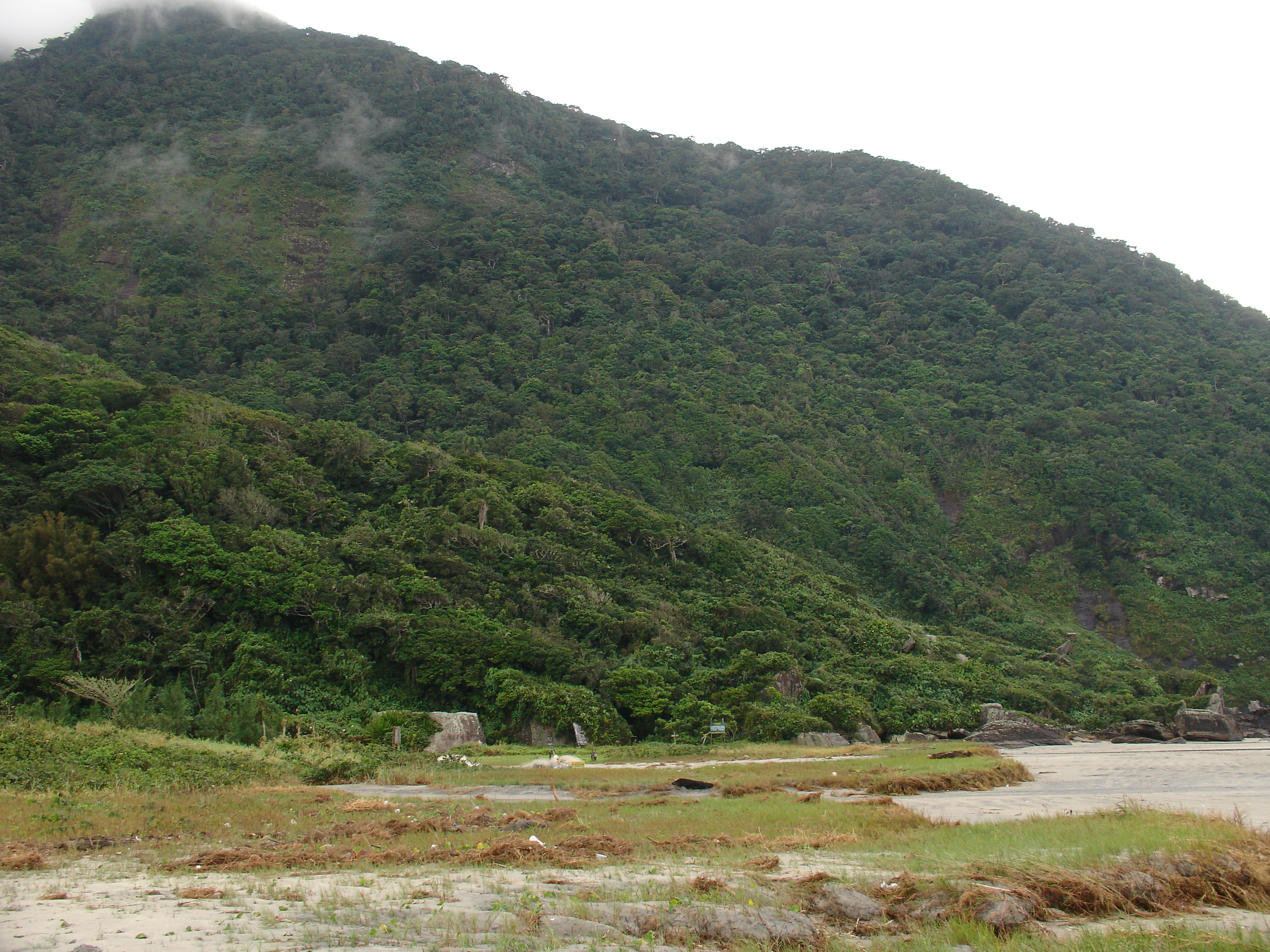 View of the Jureia hill, Jureia beach, Prelado State Park, Brazil.